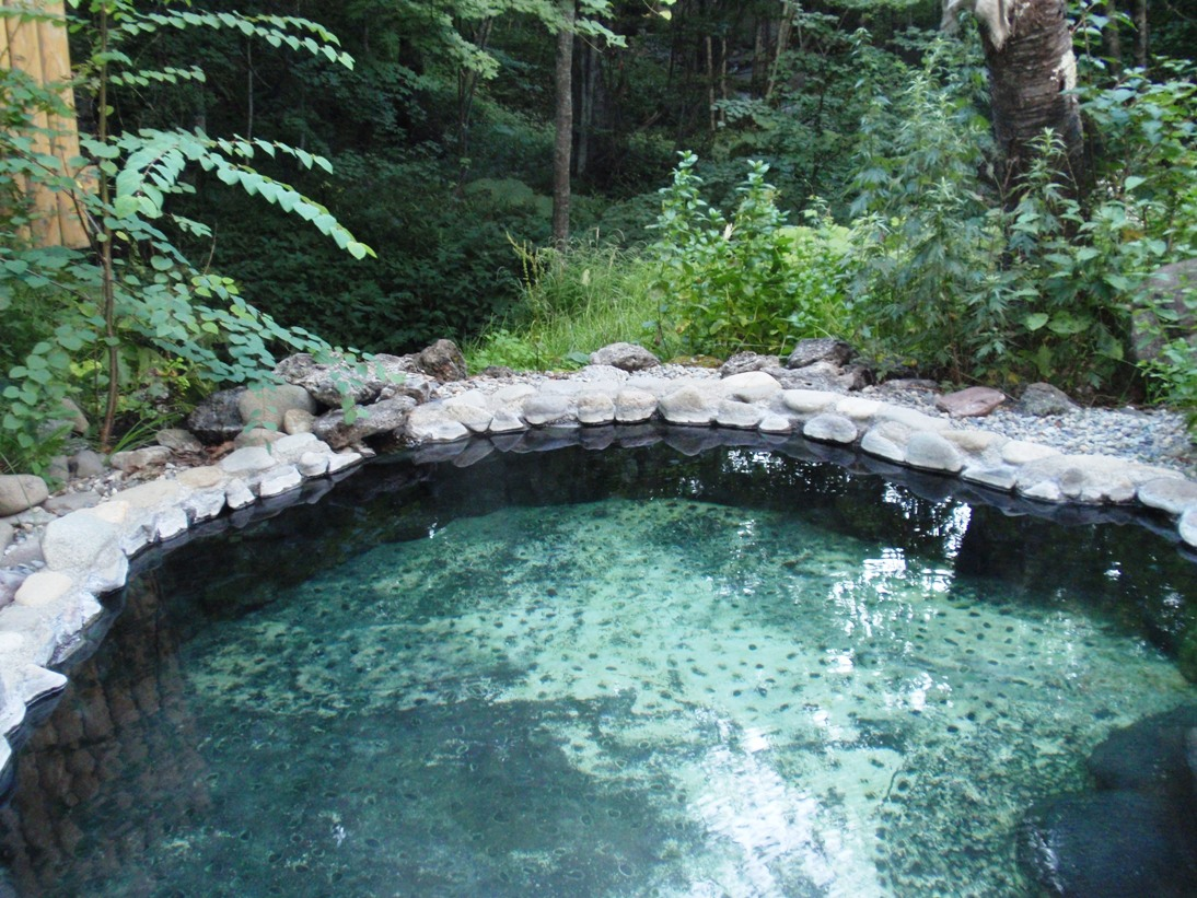 Nukabira spa Yumotokan in Kamishihoro, Hokkaido.